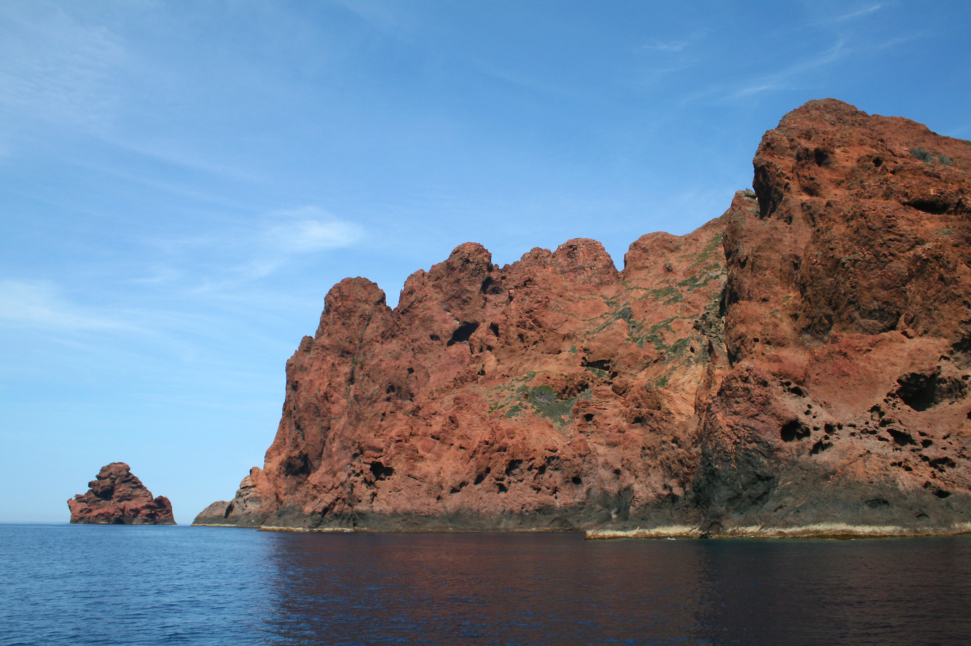 Osani (Corse-du-Sud) - France, Scandola Nature Reserve - Gargalo island and Palazzu block.